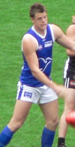 Hamish McIntosh playing for the Kangaroos during the 2006 AFL Season